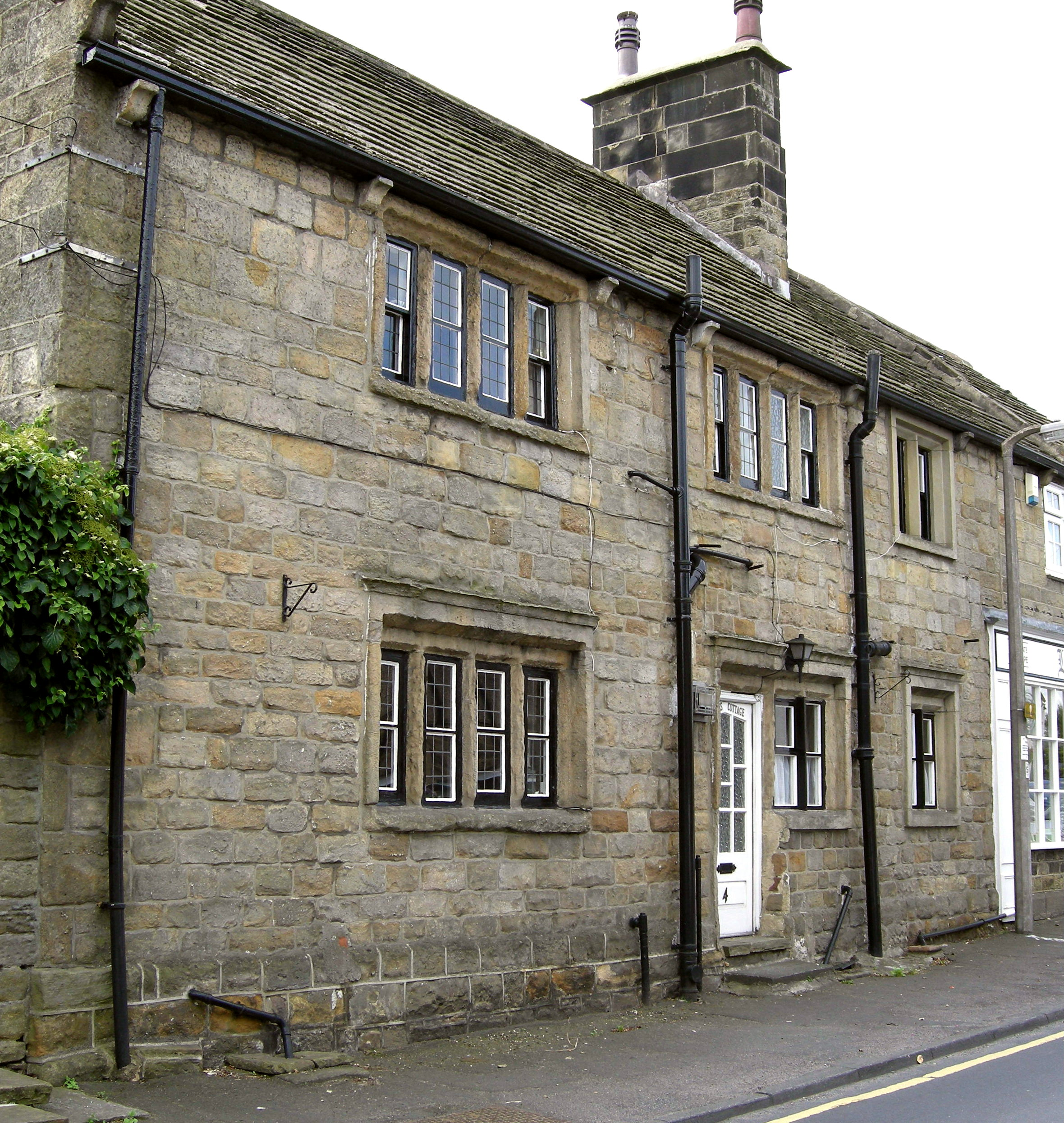 Building that was once a weaver's cottage, Eastgate, Bramhope, West Yorkshire, England. 53 53'06"N. 1.37'21"W.